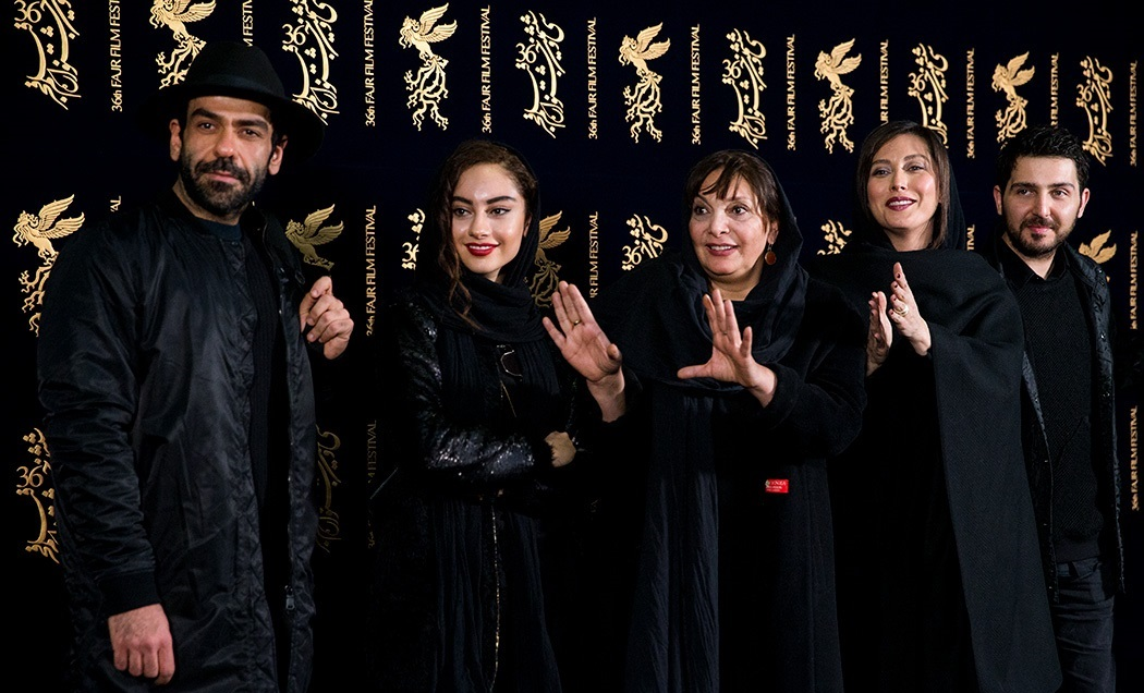 Mohammad Reza Ghaffari, Mahtab Keramati, Manijeh Hekmat, Tarlan Parvaneh and Banipal Shoomoon, 1st day of 36th Fajr Film Festival (13961113000760636532116649207529 14385). They wears all-black in protest and condemn rape. more in Sharghdaily (Persian)